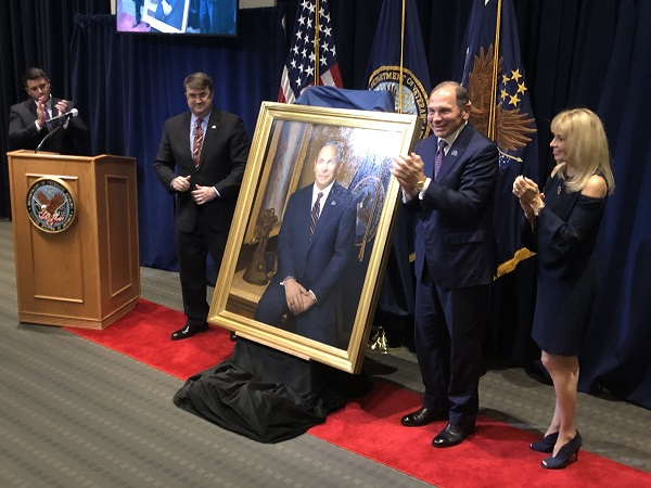 Robert A. McDonald Portrait Unveiling